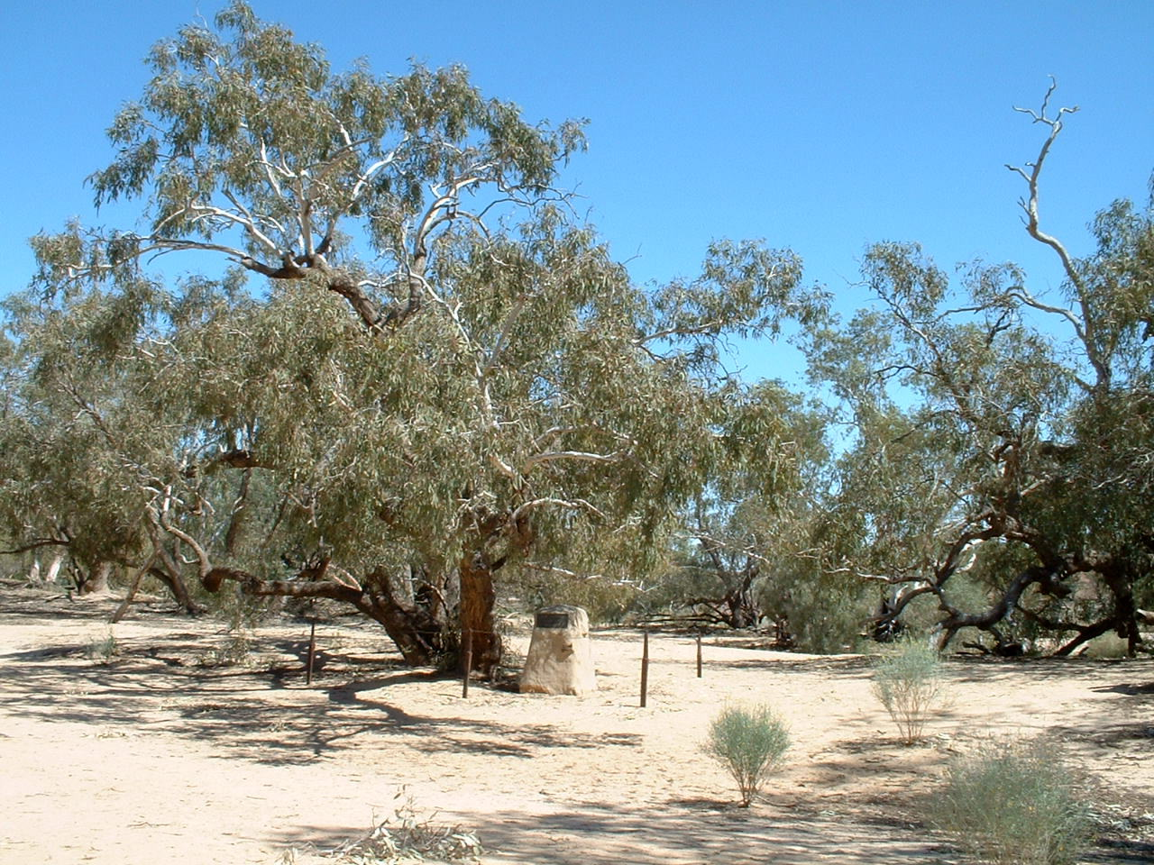 Memorial marking the site of Robert O'Hara Burke's death, on Burke Waterhole, Coopers Creek, South Australia.